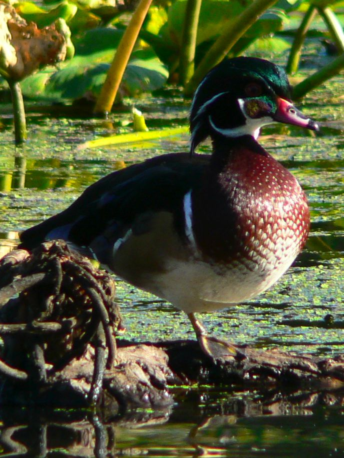 Wood Duck